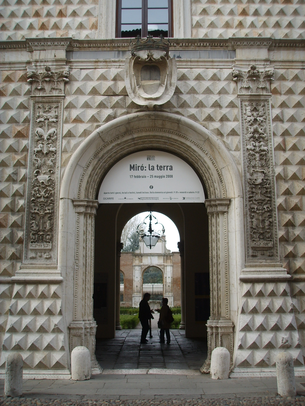 Ferrara - Main entrance of the Palace of Diamonds.